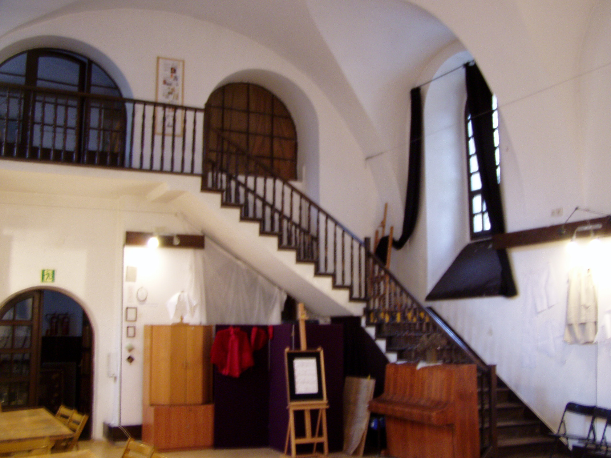 Popper Synagogue of Kazimierz, Kraków